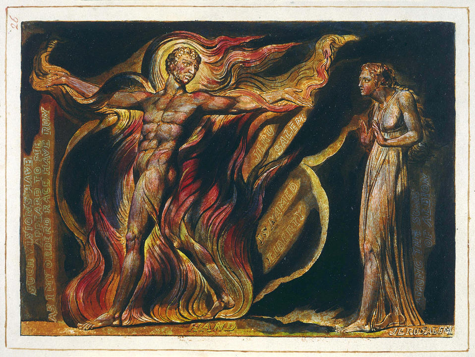 Plate 26 of Jerusalem the Emanation of the Giant Albion, copy E. Relief etching with watercolour additions.